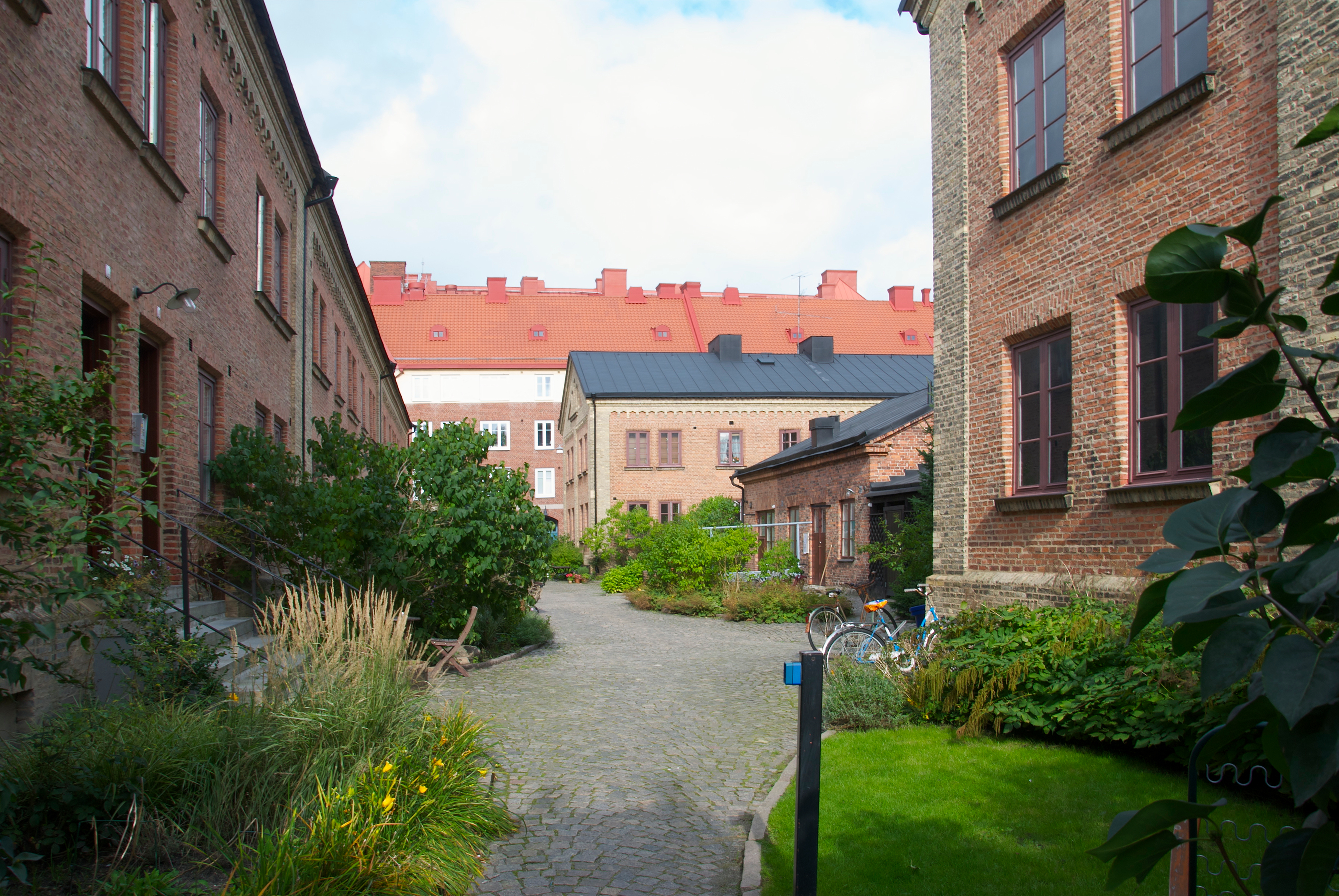 Fänriken is a historic city block in Haga district in Gothenburg built 1859-60. Architect Adolf Wilhelm Edelsvärd.